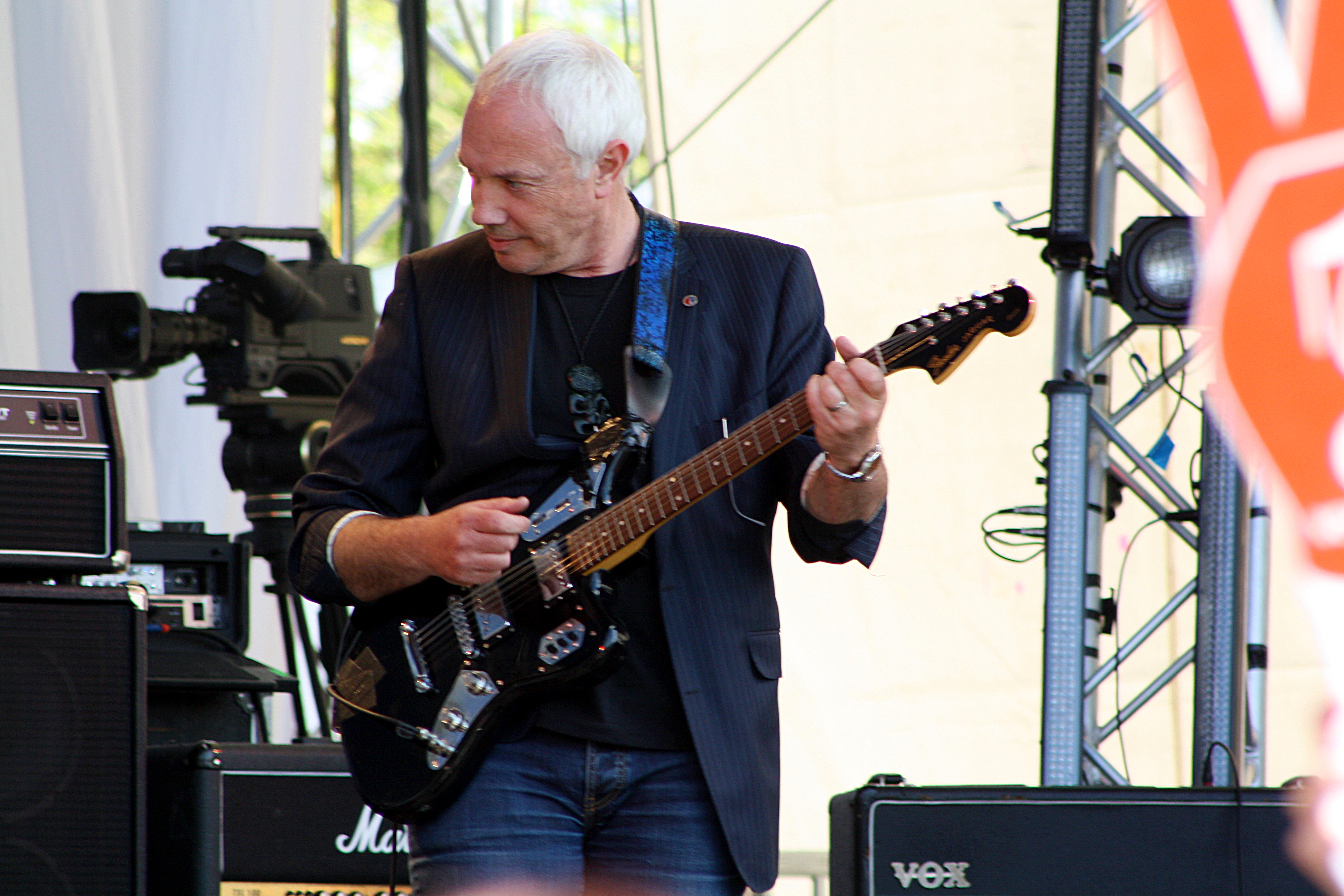 Christchurch Mayor Bob Parker Hagley Park Christchurch Canterbury New Zealand performing with The Bats Photo Taken With: Canon EOS 1000D + Canon EF/EF-S lenses + 10.1 effective megapixels + 2.5-inch TFT color LCD monitor + Eye-level pentamirror SLR + Live View shooting. + EOS Built-in Sensor cleaning system + Wide-area 7 point AF with center cross-type sensors + DIGIC III Image Processor + PictBridge and Canon Direct Print compatible – no PC required + Continuous Drive up to 3 frames per second for as many JPEGs until the card is filled + Storage: SD & SDHC Card + Sensitivity: Auto, ISO 100 to 1600